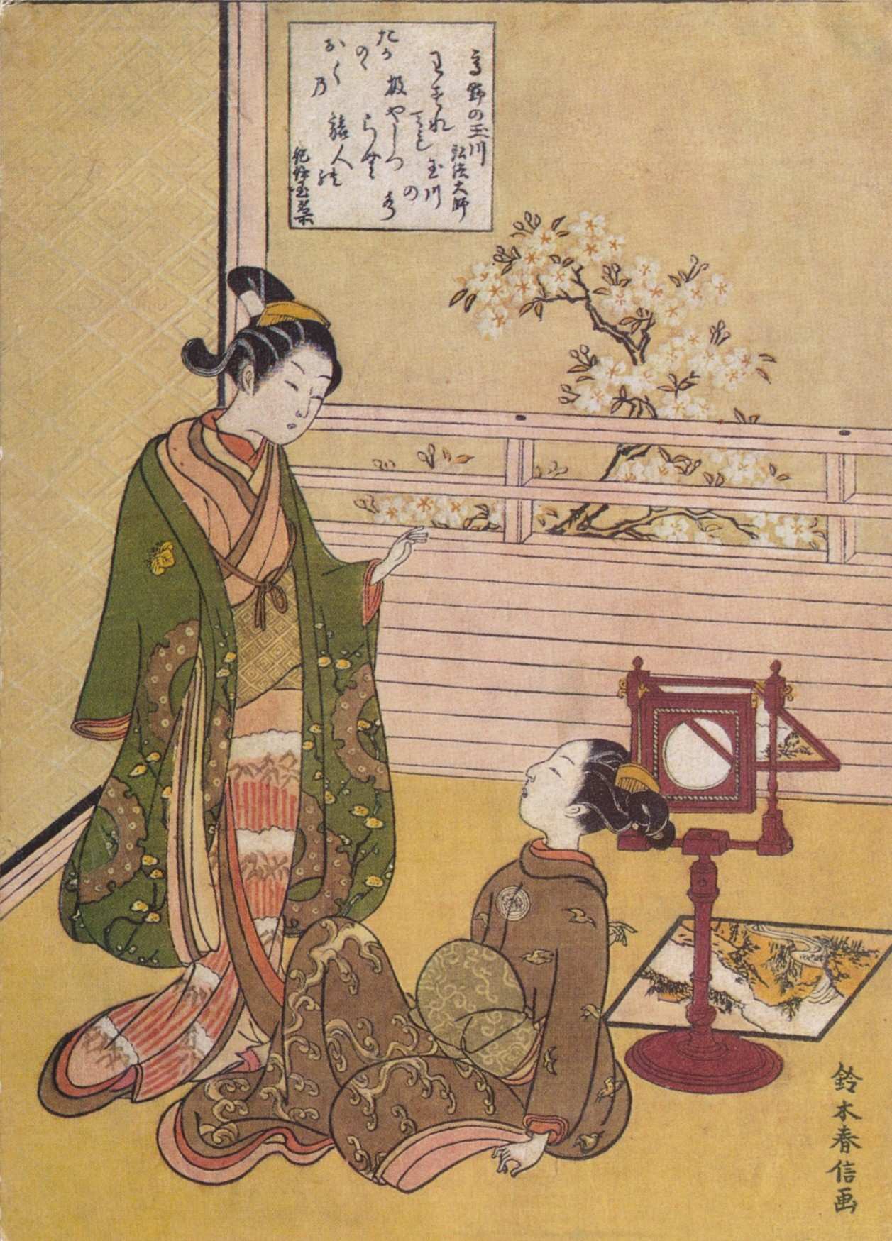 Girls with a picture viewer